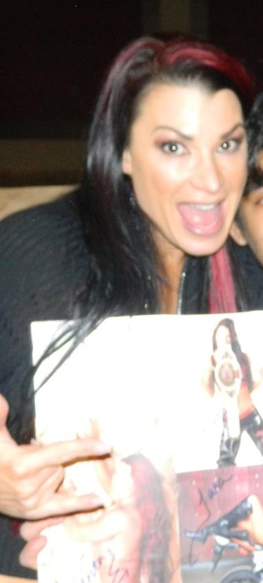 Lisa Marie Varon, of WWE fame as Victoria, currently in TNA as Tara